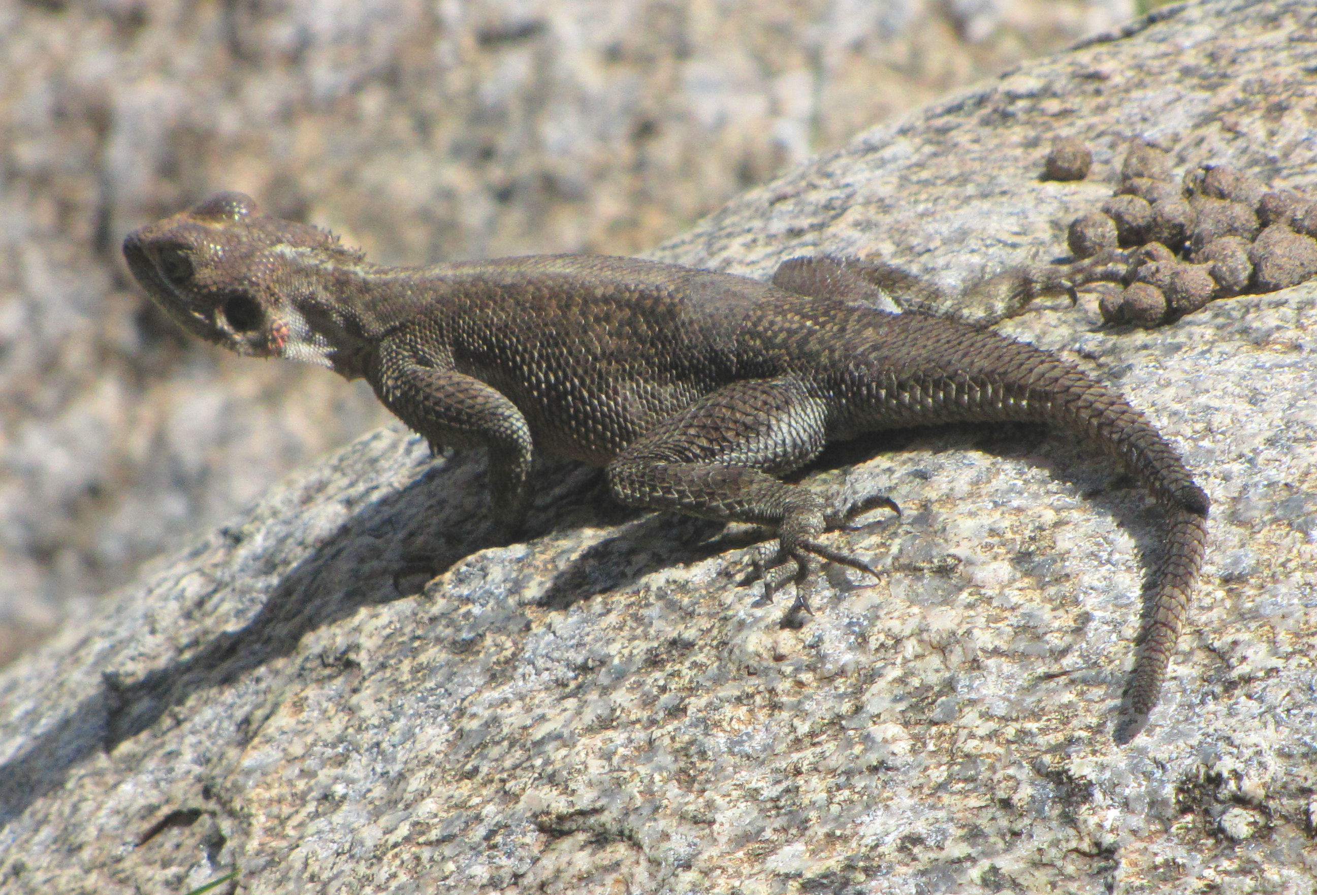 Mwanza Flat-headed Rock Agama (Agama mwanzae), female, Serengeti, Tanzania